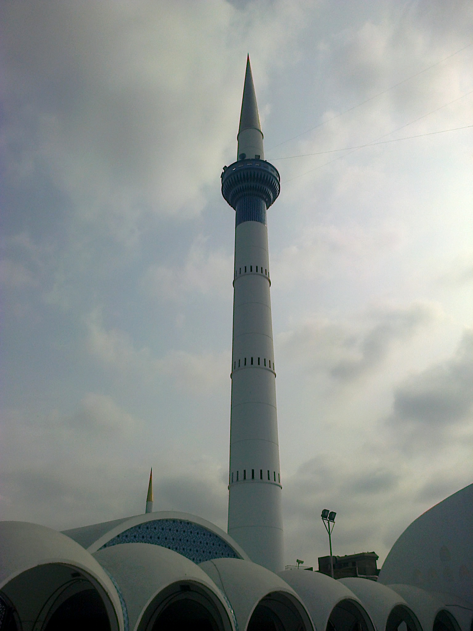 Data Durbar Complex This is a photo of a monument in Pakistan identified as the PB-P-105